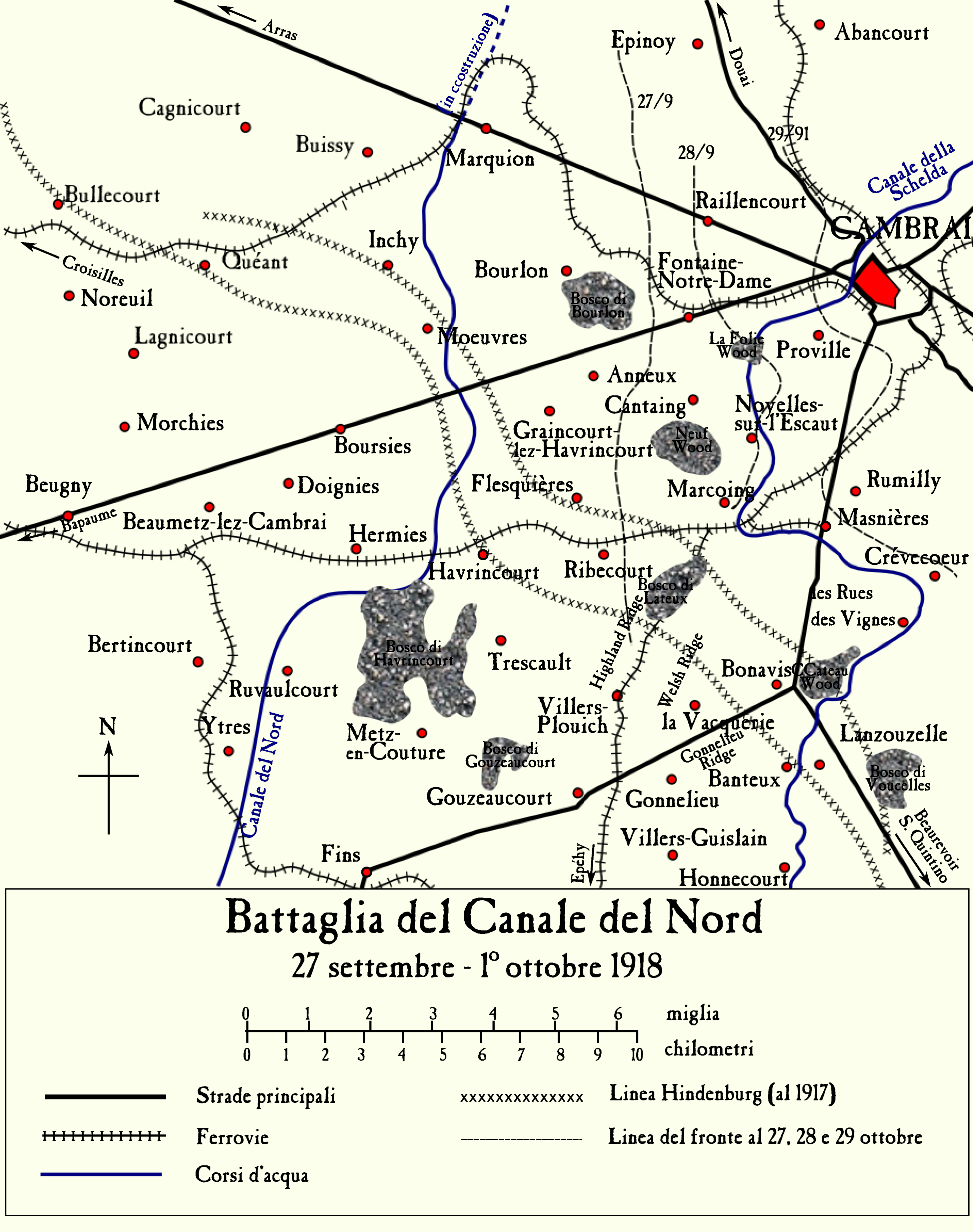 A map of the Battle of the Canal du Nord (1918), based on the 1917 map at and on the description of the battle given by Encyclopaedia Britannica. Since the base map is of 1917, some fortifications (e.g. the Marquion-Cantaing map) are missing. The front lines are only approximated. The Inkscape .svg source of this map (e.g. for translation purposes) is available here. The present .png version is provided because of some incompatibilities between Wikimedia software and Inkscape .svg file format